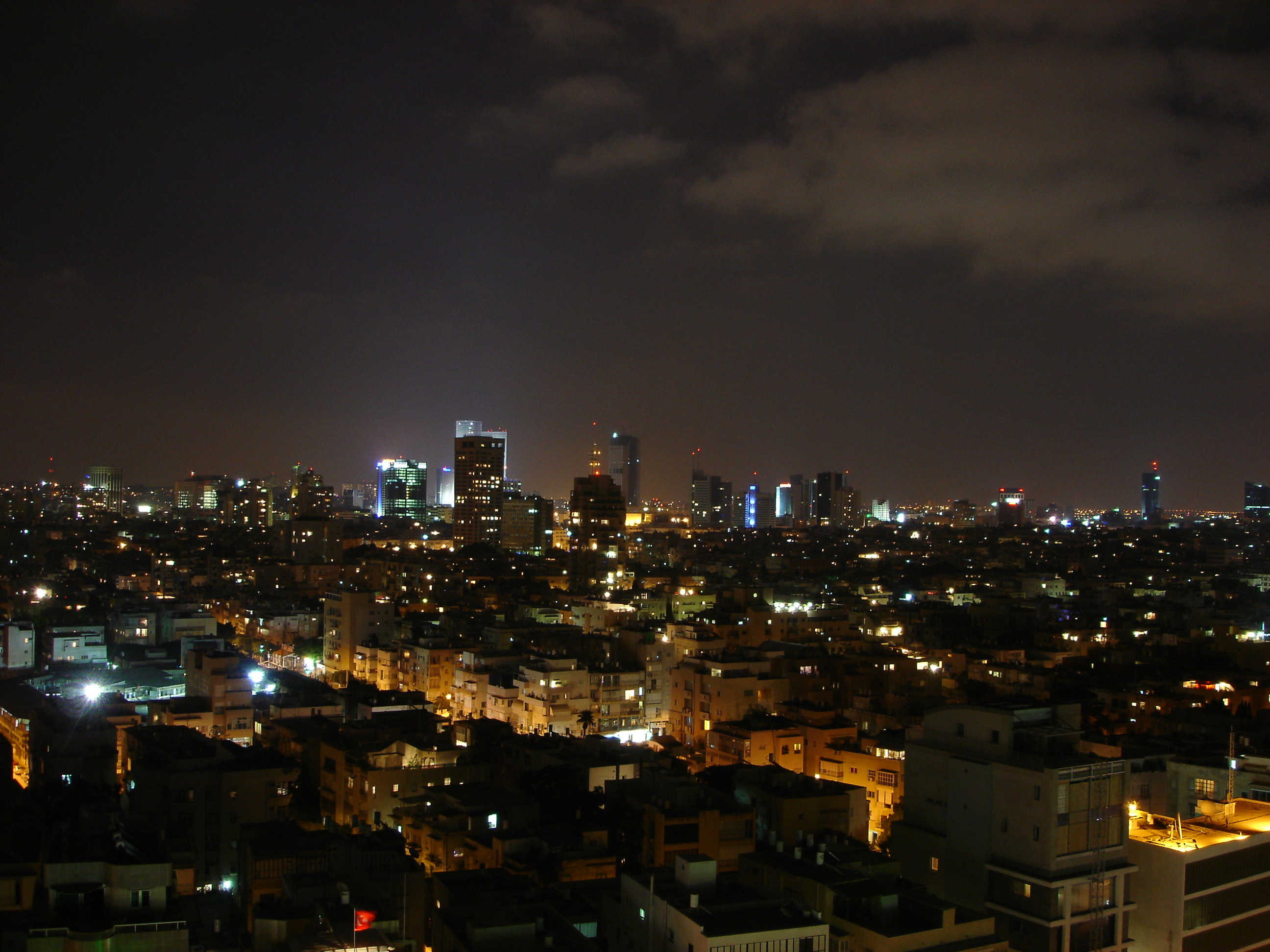 Night view of downtown Tel Aviv